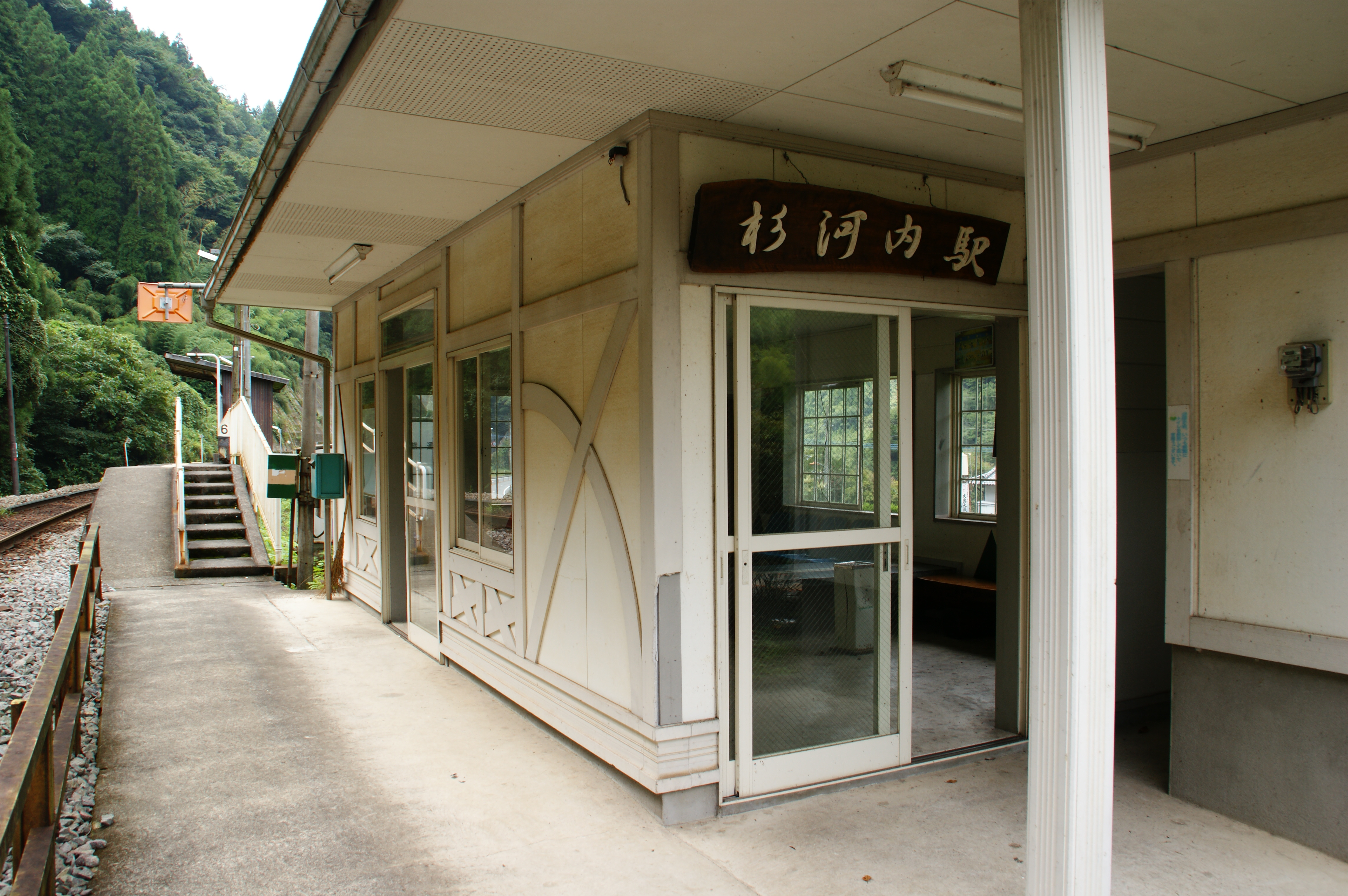 Kyushu Railway, Sugikawachi Station.(Hita City, Oita Prefecture, Japan)